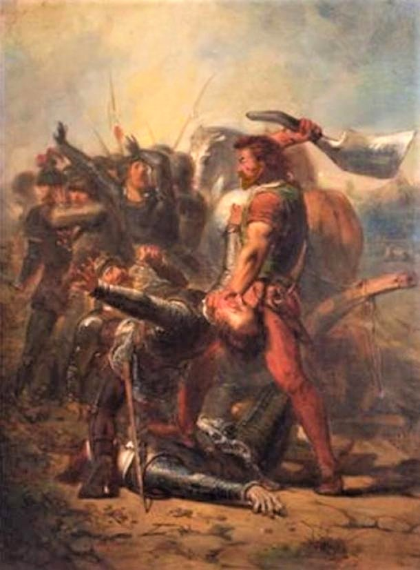 Photo is accurate reproduction from art work located in the Town Hall of Sneek, Friesland, the Netherland.